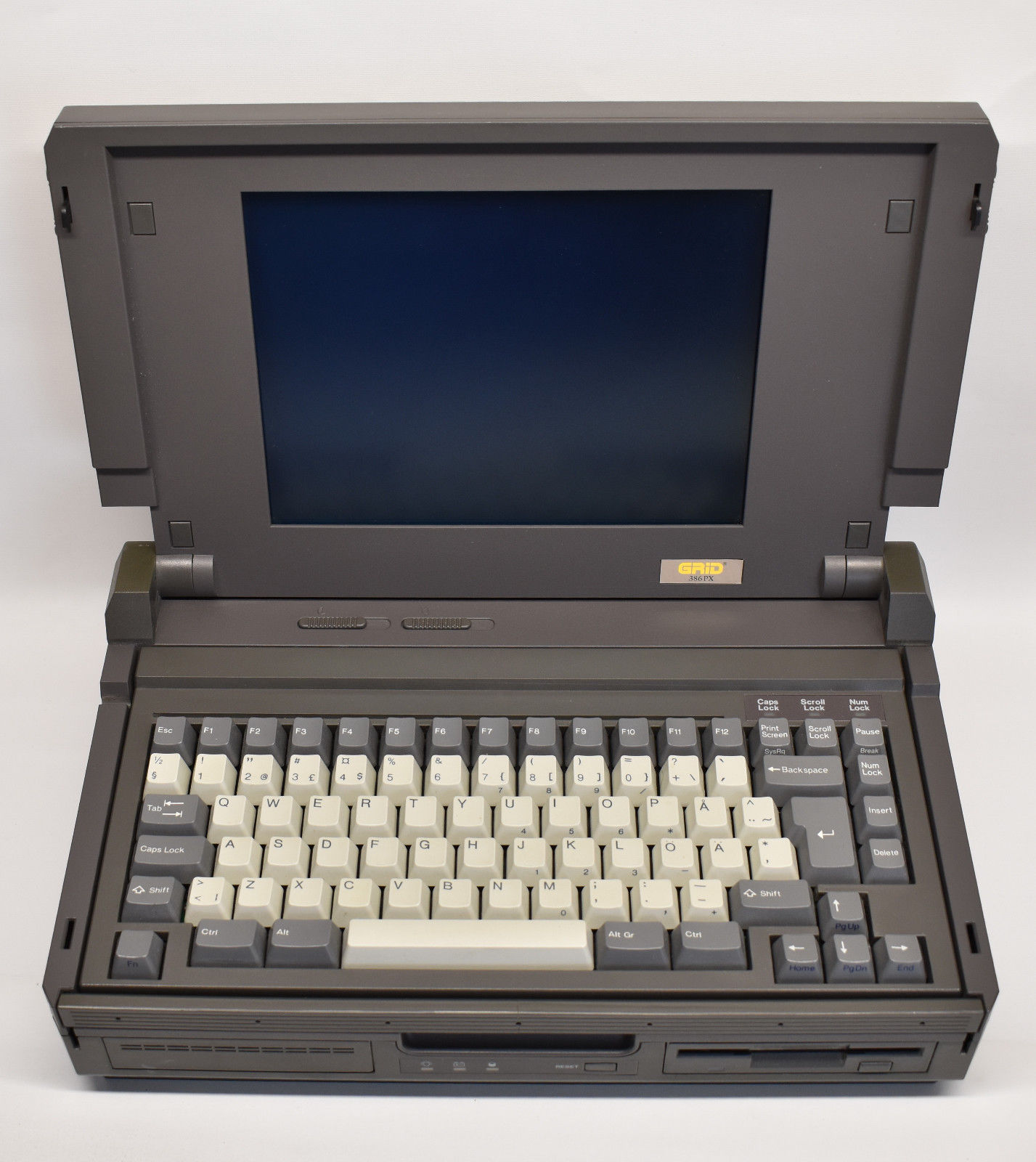 Front-top view image of the Victor Technologies Grid 386PX (Model BV30E01A).